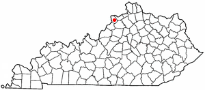 Adapted from Wikipedia's KY maps by Seth Ilys